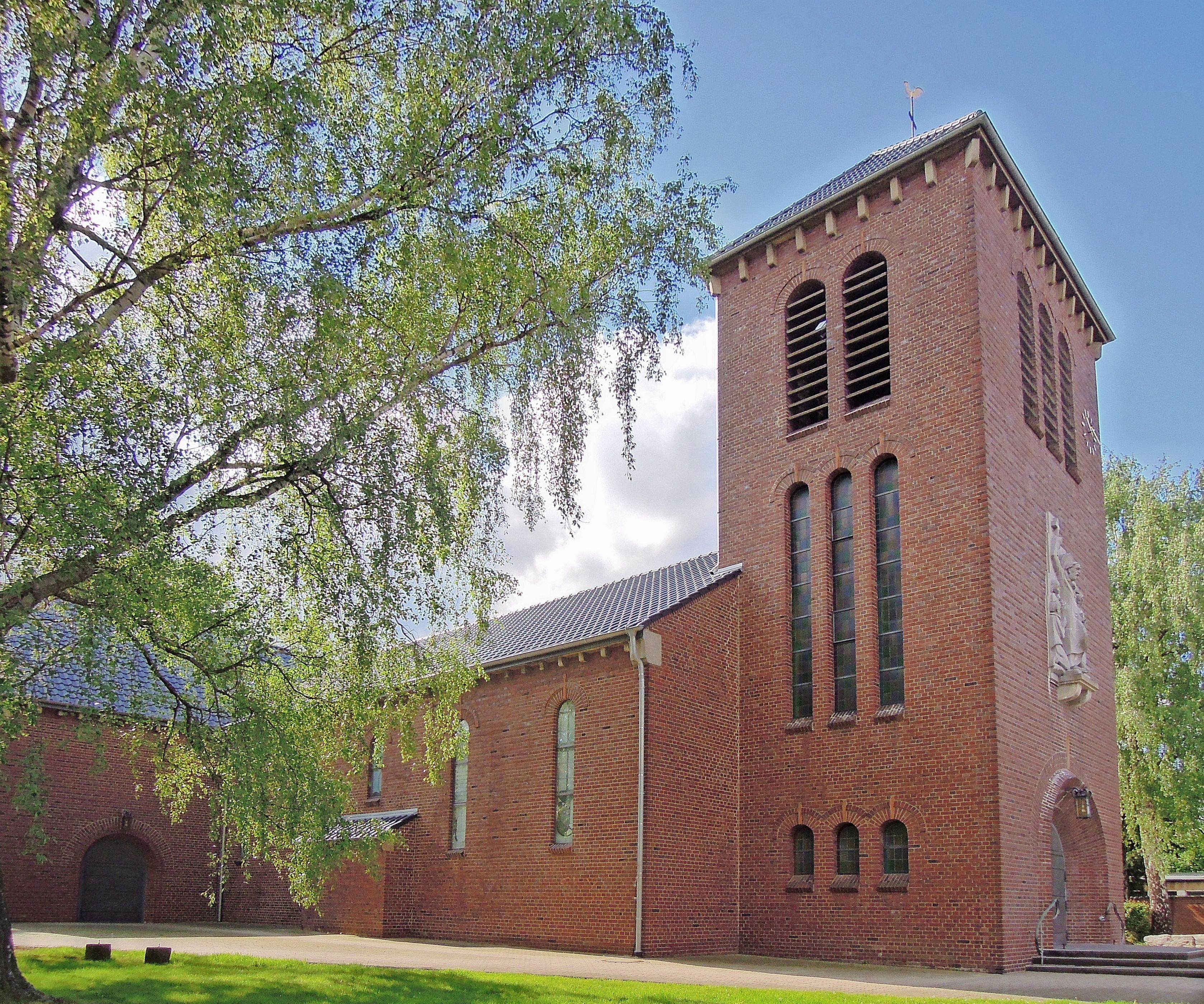 Church in Dürwiß